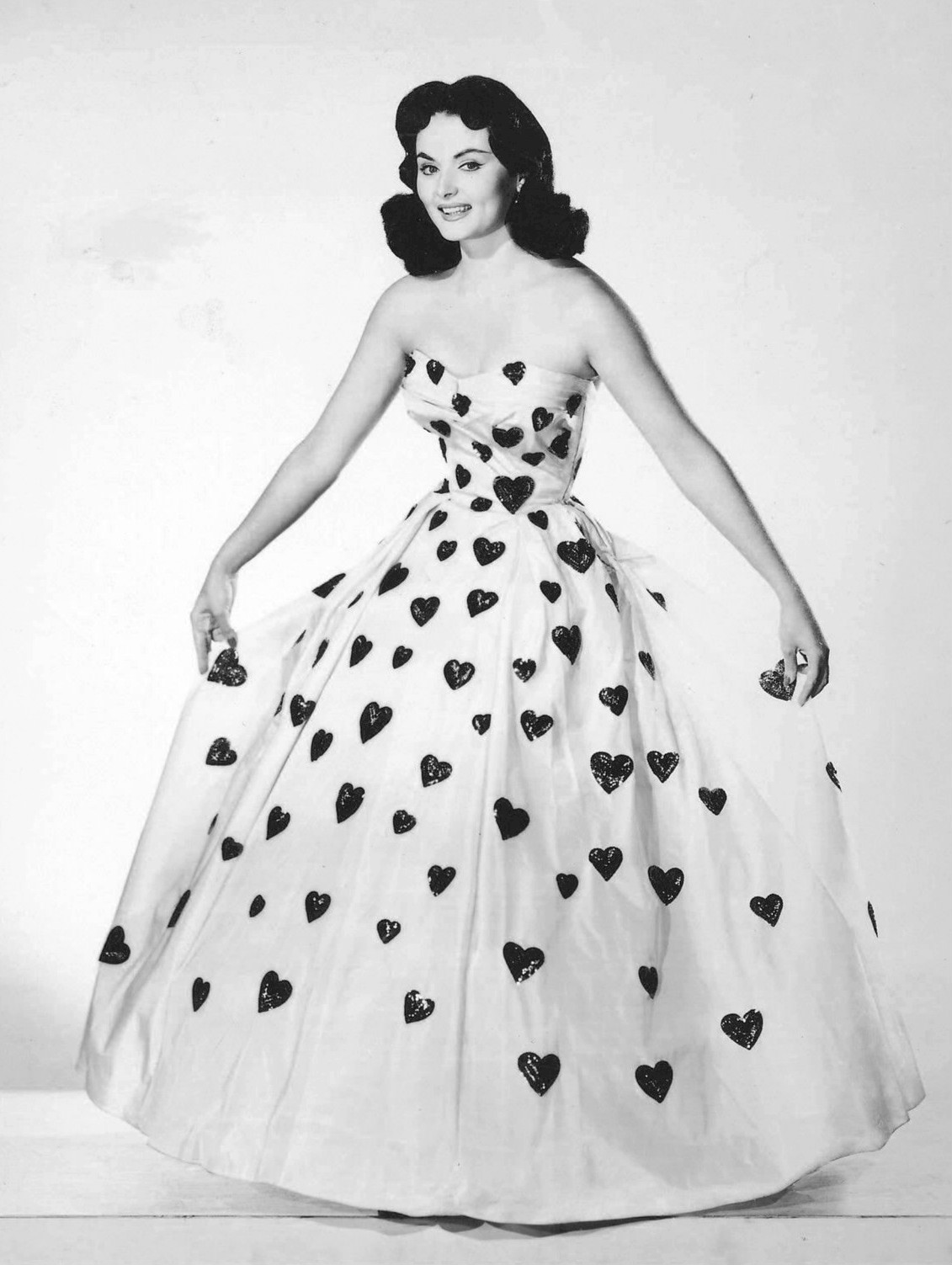 Photo of Nancy Walters from the television game show Strike It Rich.